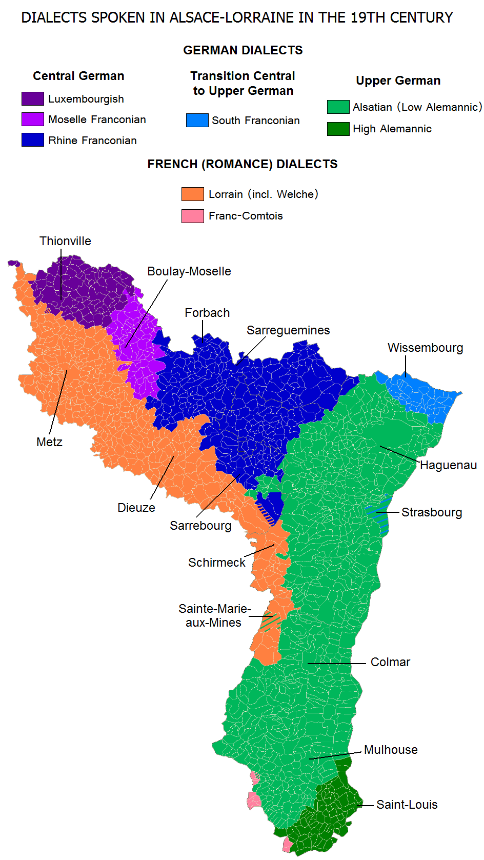 Created map based on the historical language maps at and Constantin This's 1886 language map of Lorraine (see page 7).